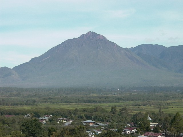 Historically active Bur ni Telong volcano, seen here from the SE, was constructed on the southern flank of Bur ni Geureudong volcano, part of which is visible in the background. The two summits of the complex are 4.5 km apart and differ only 34 m in elevation. The summit crater of 2624-m-high Bur ni Telong has migrated to the ESE, leaving arcuate crater rims. Lava flows are exposed on the southern flank. Explosive eruptions were recorded during the 19th and 20th centuries.